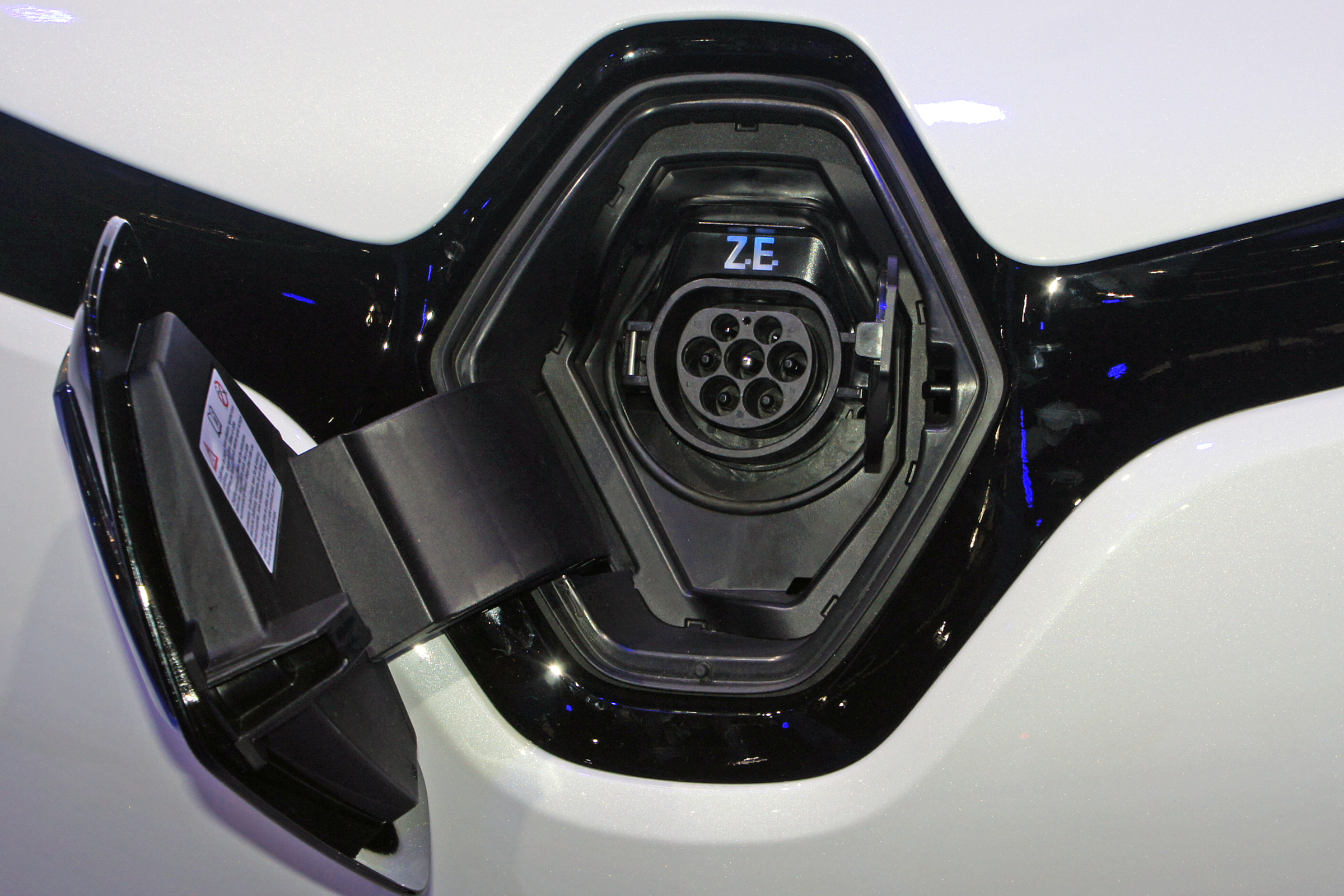 Renault Zoe charging inlet.